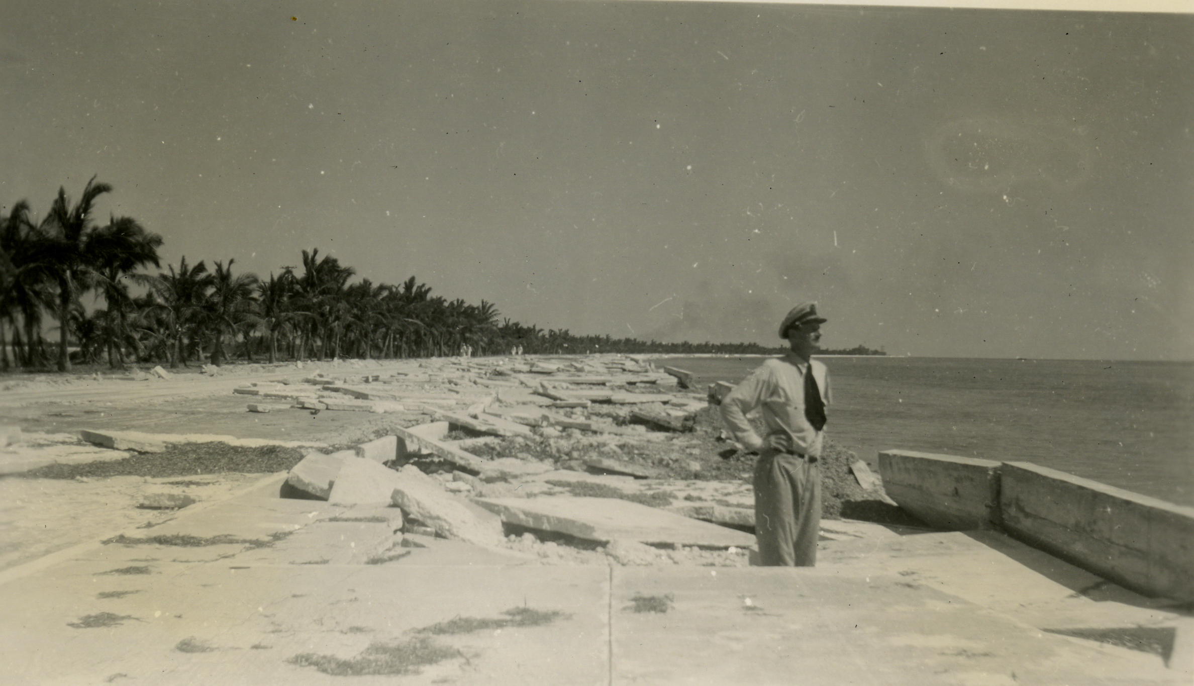 Damage from the Hurricane of October 1944. Photo by E. J. Quinby. Effects of the 1944 Cuba–Florida hurricane in Key West, Florida, October 1944.